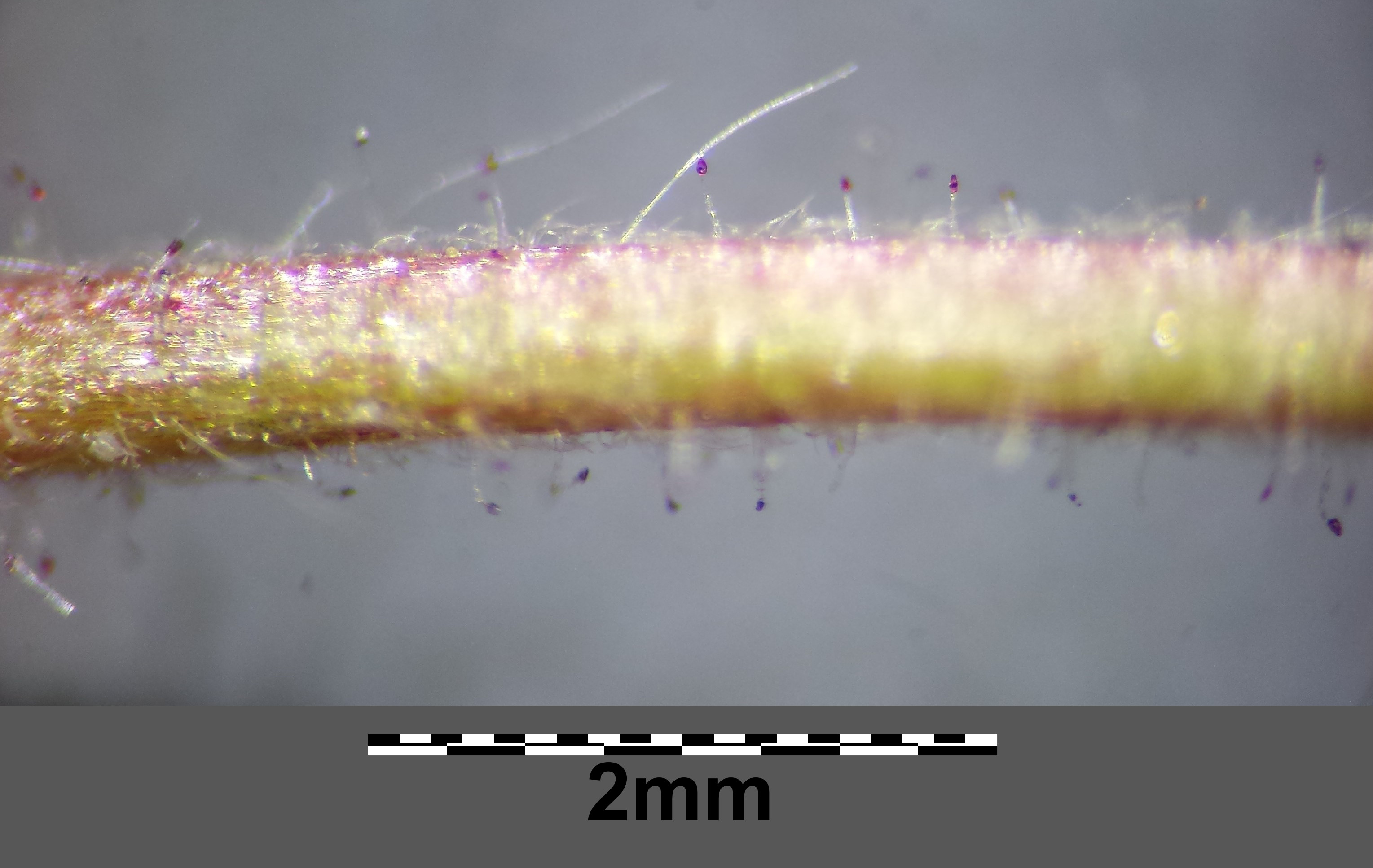 Pedicel with simple and glandular hairs Taxonym: Potentilla pusilla ss Fischer et al. EfÖLS 2008 ISBN 978-3-85474-187-9 Location: Tresdorf, district Korneuburg, Lower Austria - ca. 180 m a.s.l. Habitat: slope